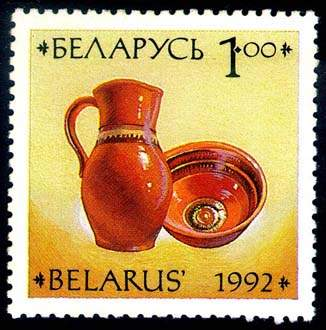 Stamp of Belarus